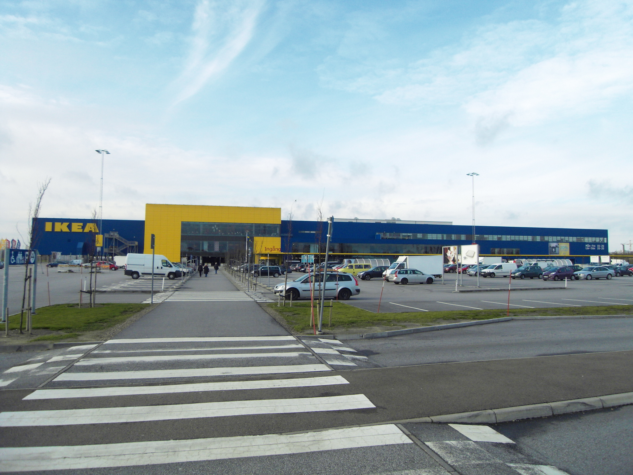 An IKEA store in the neighbourhood Svågertorp in the city of Malmo. This IKEA store used to be the third biggest IKEA store in the world, having 44 000 square meters. Bigger IKEA stores have been built in recent times.